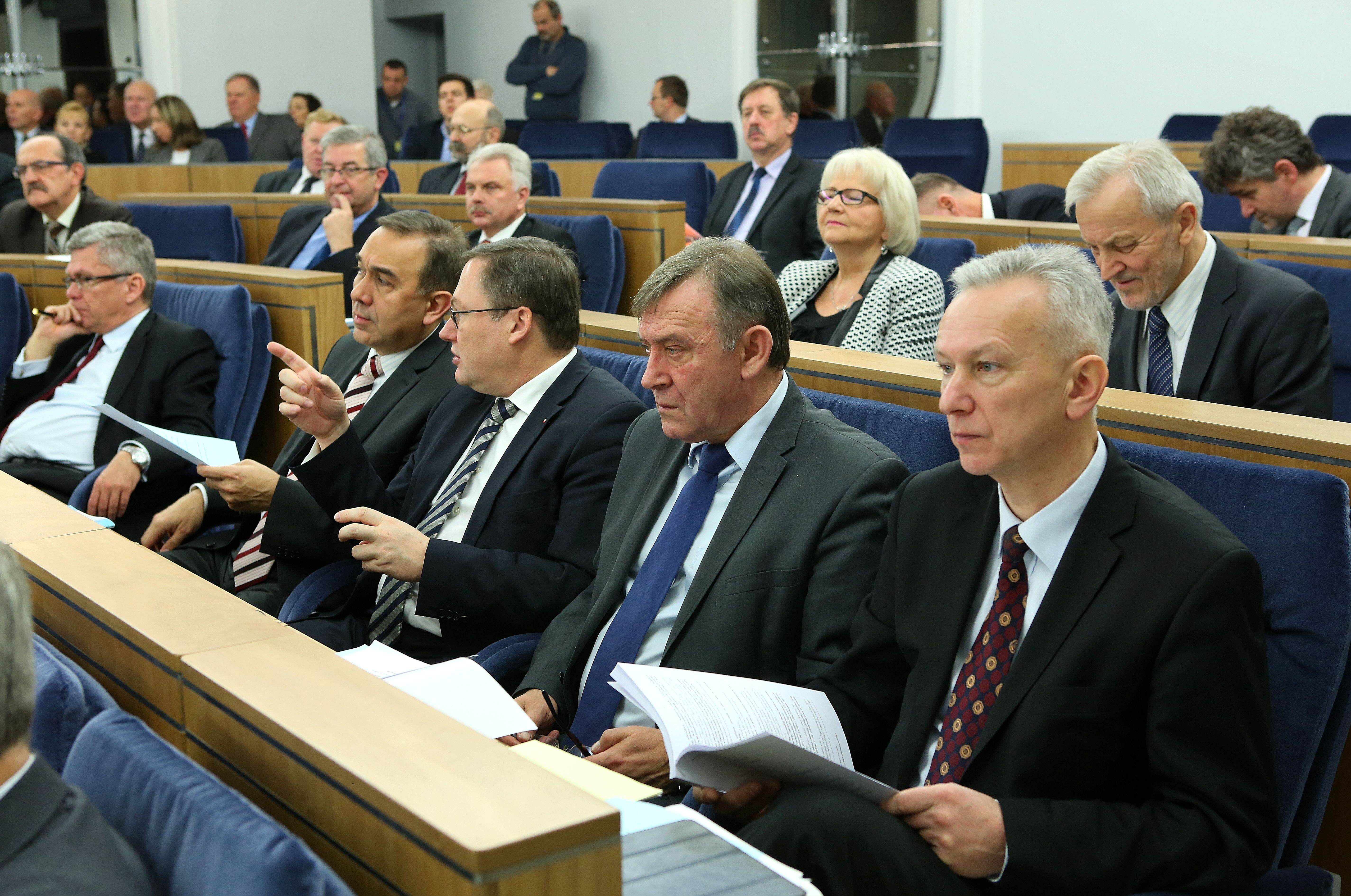 44th sitting of the Polish Senate